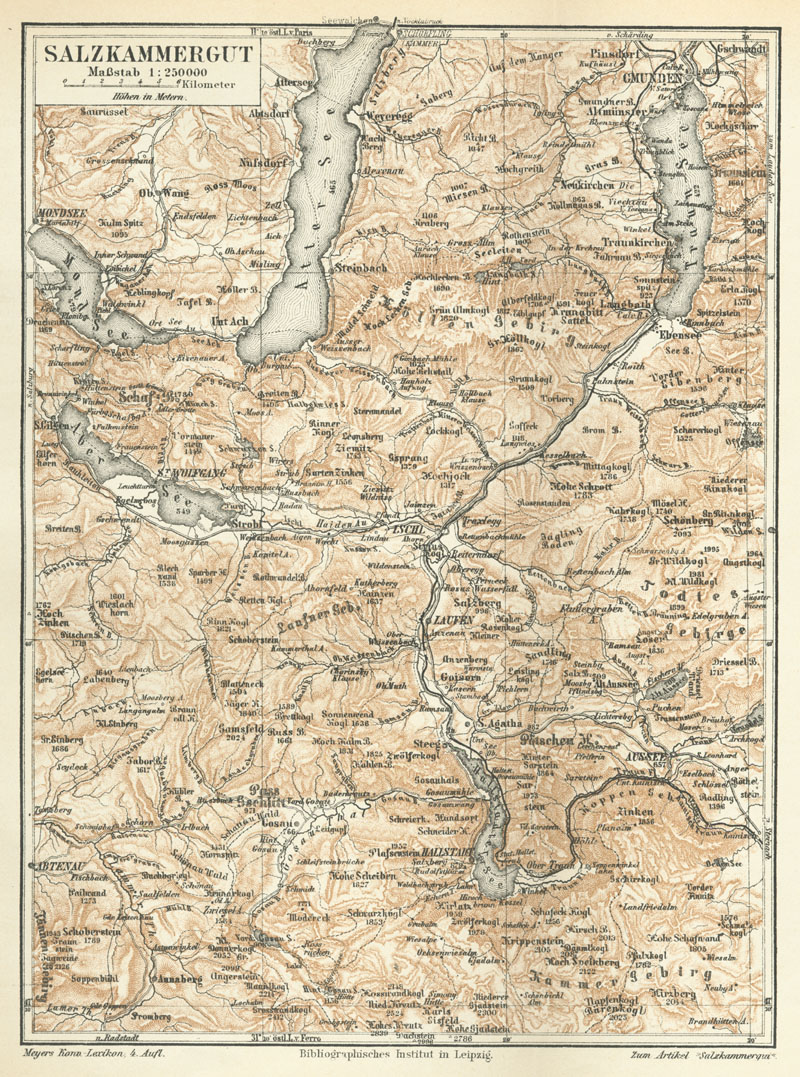 German map of Salzkammergut